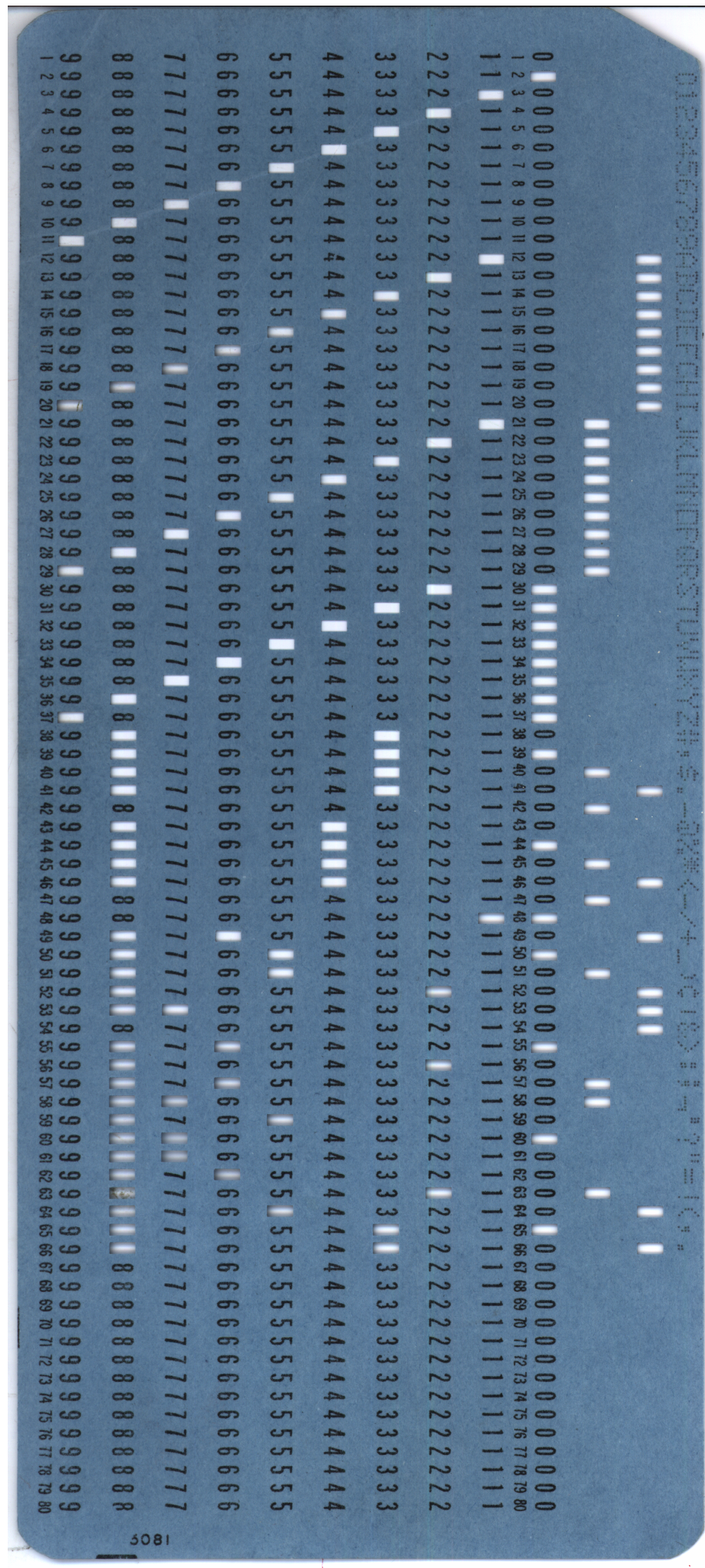 Original description: "This is the front of a blue IBM-style punch card which I was given by a Google employee. I do not know whether it says anything." The contents of this card is the complete (or close to complete) EBCDIC character encoding, starting 0123456789ABCDEFGHIJKLMNOPQRSTUVWXYZ, followed by special characters. One can read the letters printed along the edge.